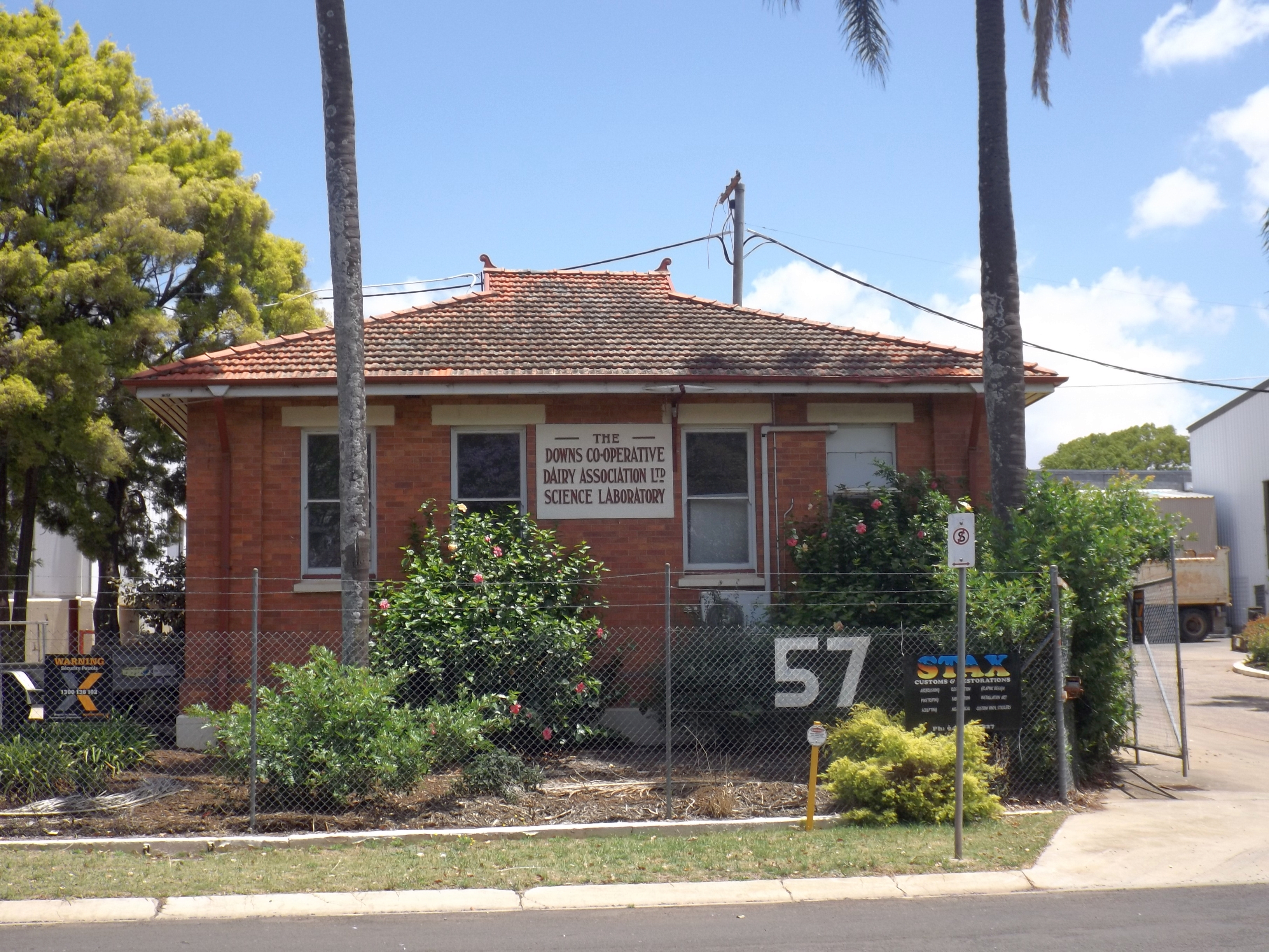 Photo of science laboratory at the Downs Co-operative Dairy Association Limited Factory in Newtown, Toowoomba, Queensland, Australia.